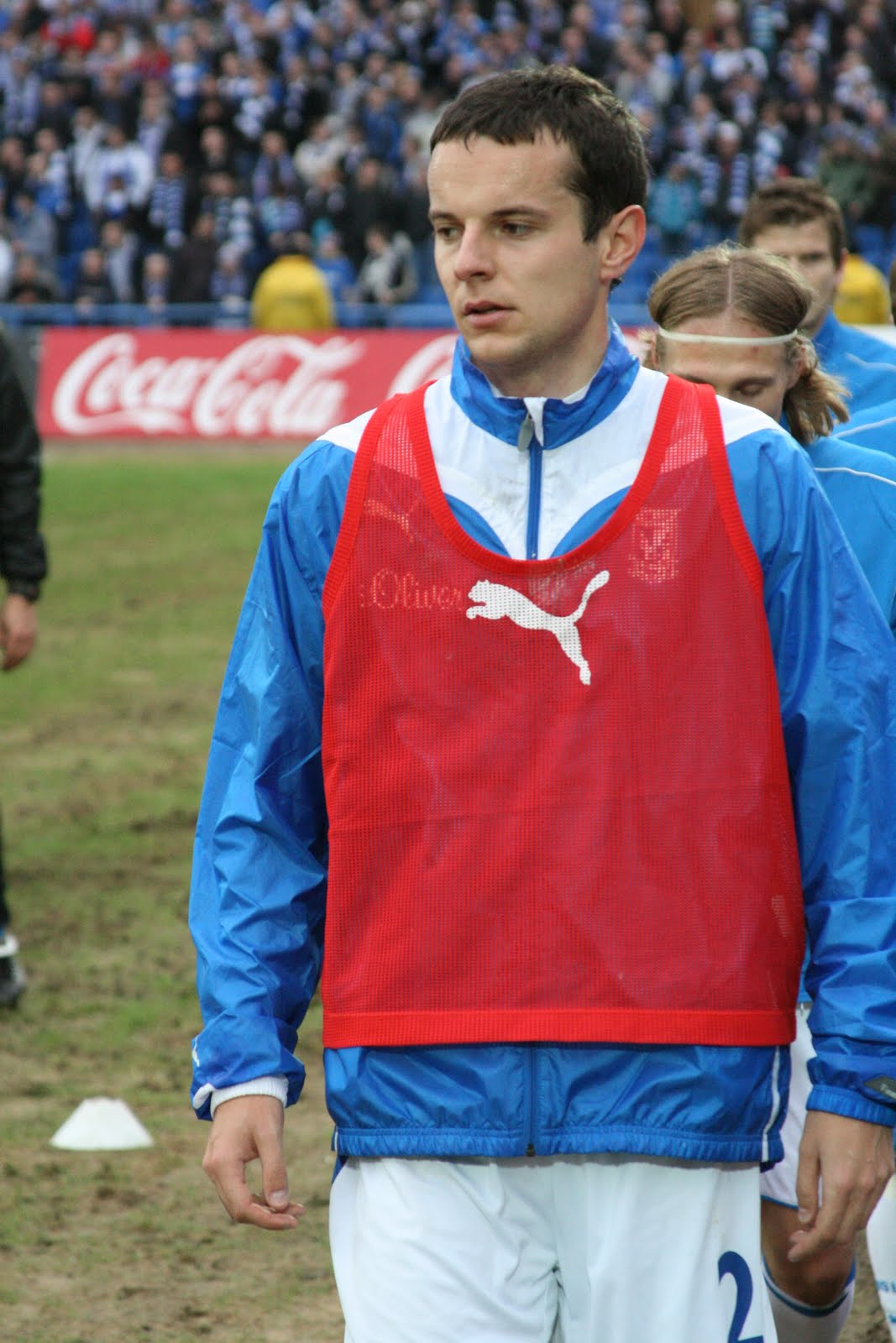 Polish football player Tomasz Mikołajczak